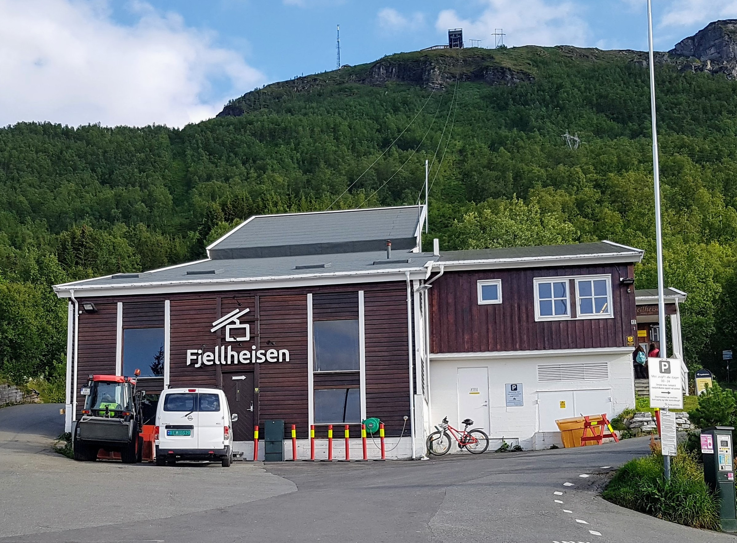 Fjellheisen starting point